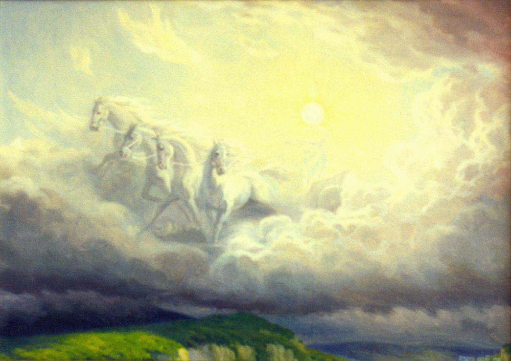 "Helios"